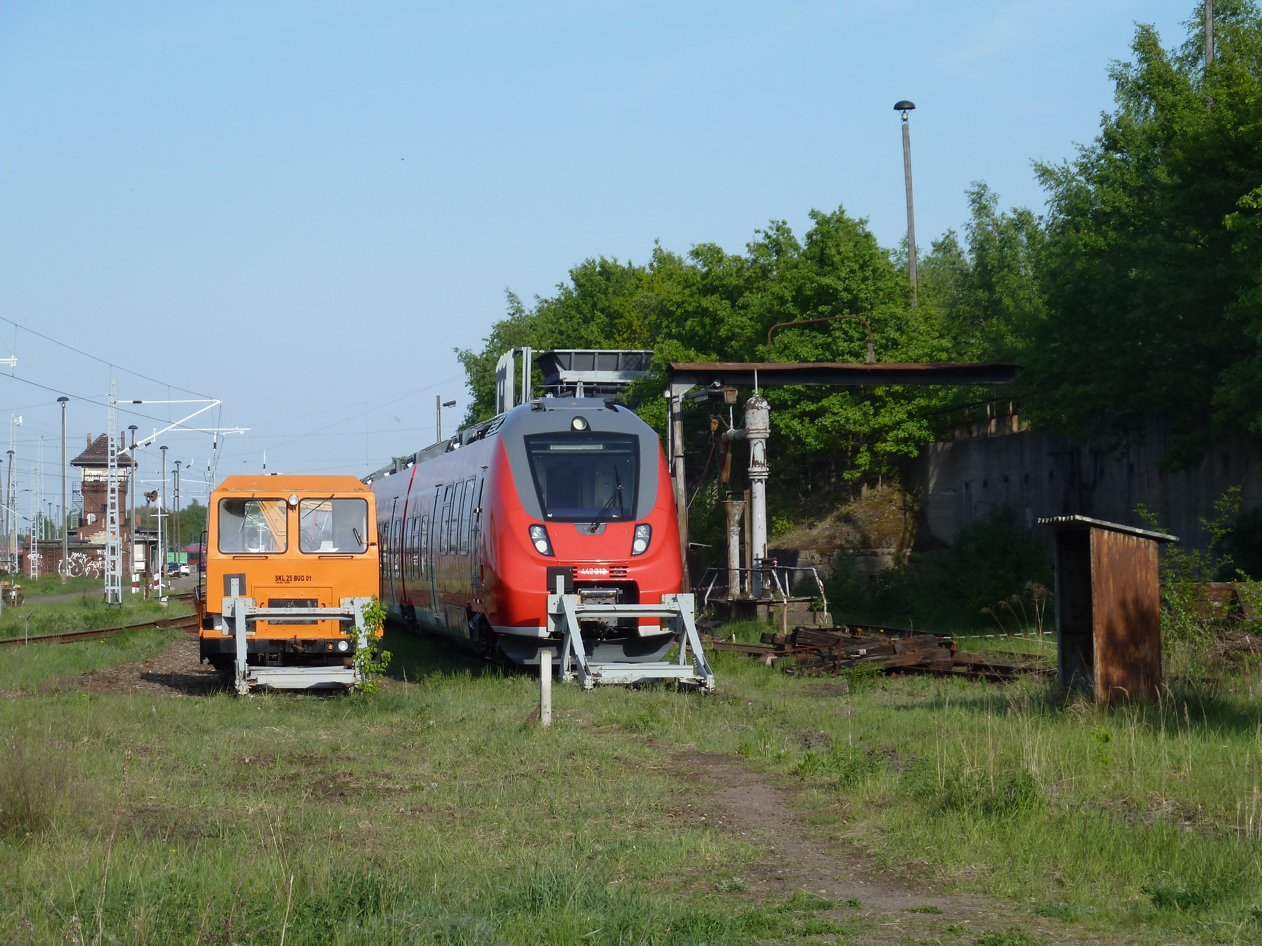 Wustermark Rangierbahnhof, coal unloading device + new Talent 2 EMU